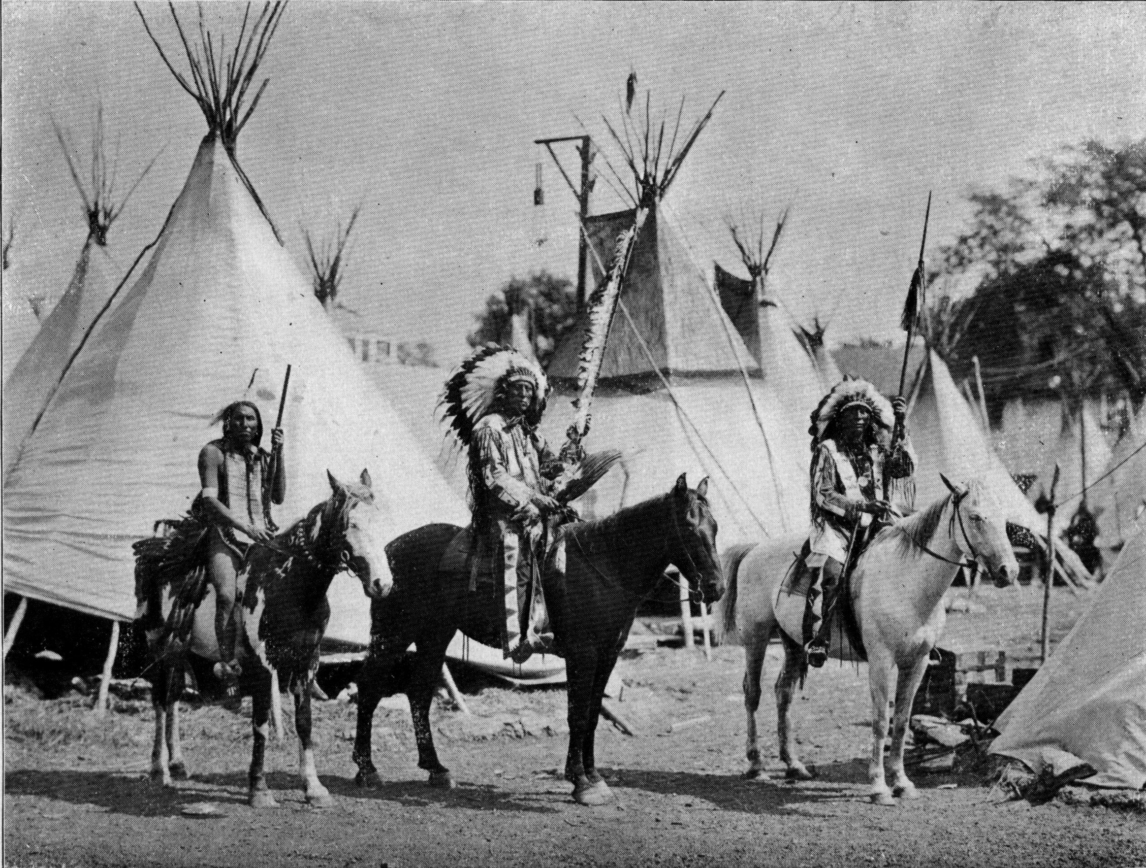 Original caption: "A Glimpse at the Indian Congress - There are forty-two tribes of North American Indians represented in the Indian Congress. Three of the most noted chiefs are seen in this group. To the extreme left is Chief Lone Elk, Sioux, and in the center is Chief Red Cloud, the fierce war chief of the Sioux, fiery orator and bitter enemy of the whites. To the right is Chief Hard Heart, another noted Sioux warrior."